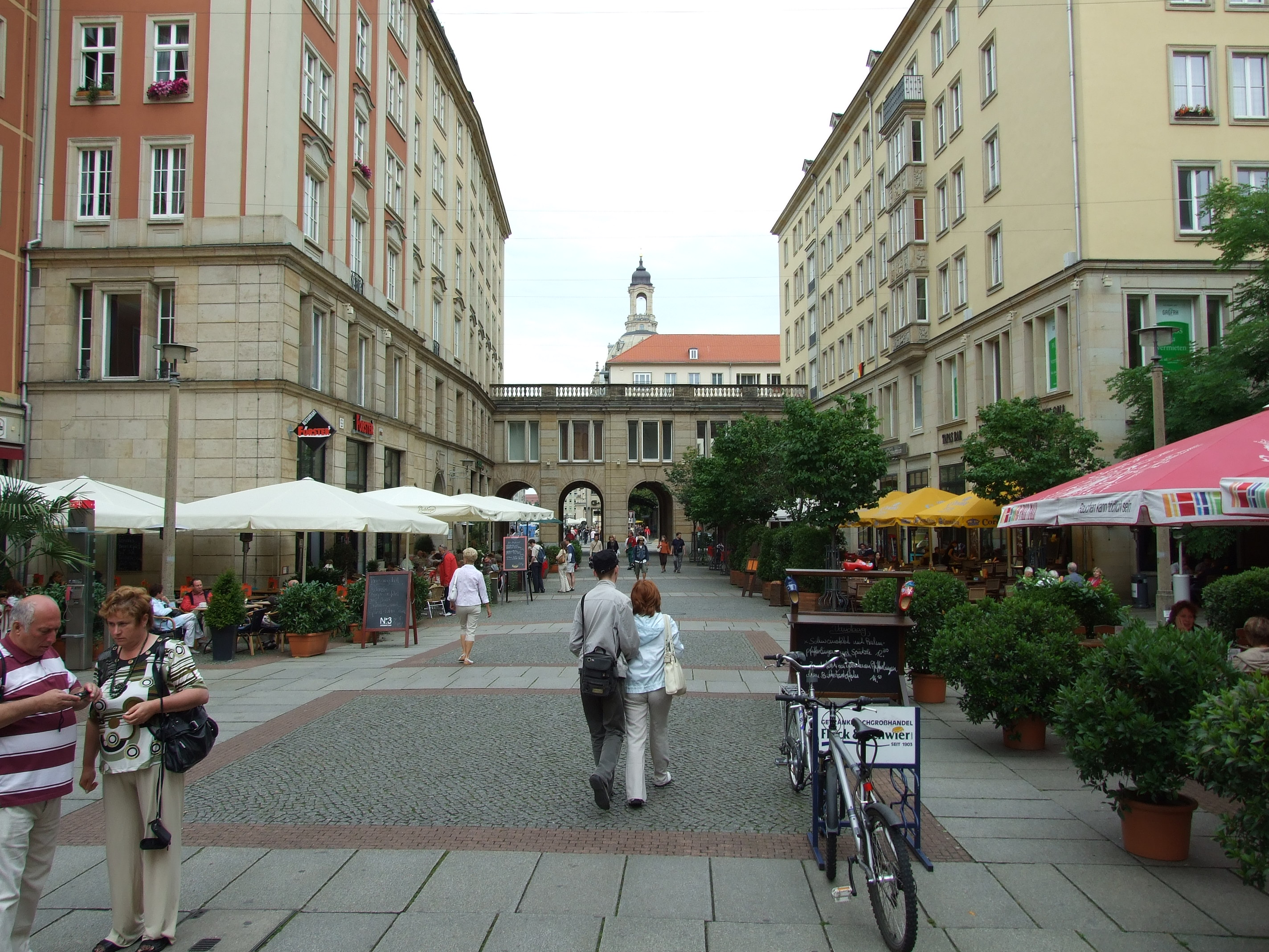 Weisse Gasse street in the historic center of Dresden, Germanyhelp